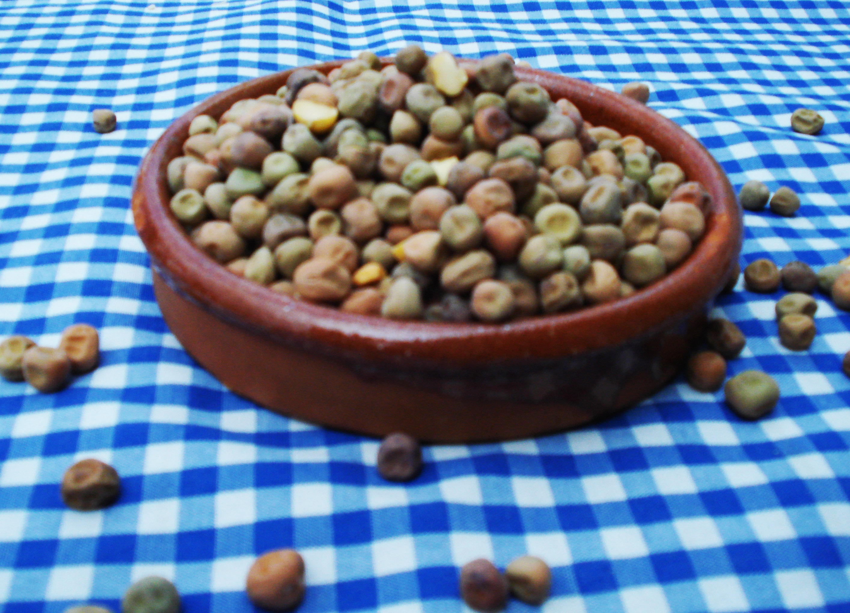 Pèsols negres en sec.